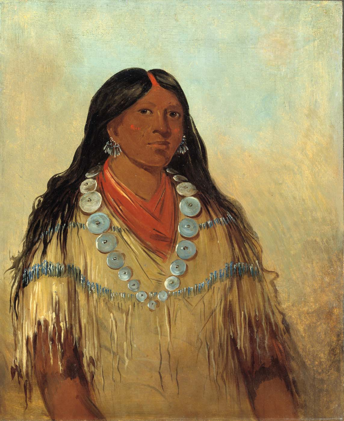 George Catlin painted portraits of Creek/Muskogee braves at Fort Gibson, Arkansas Territory, in 1834